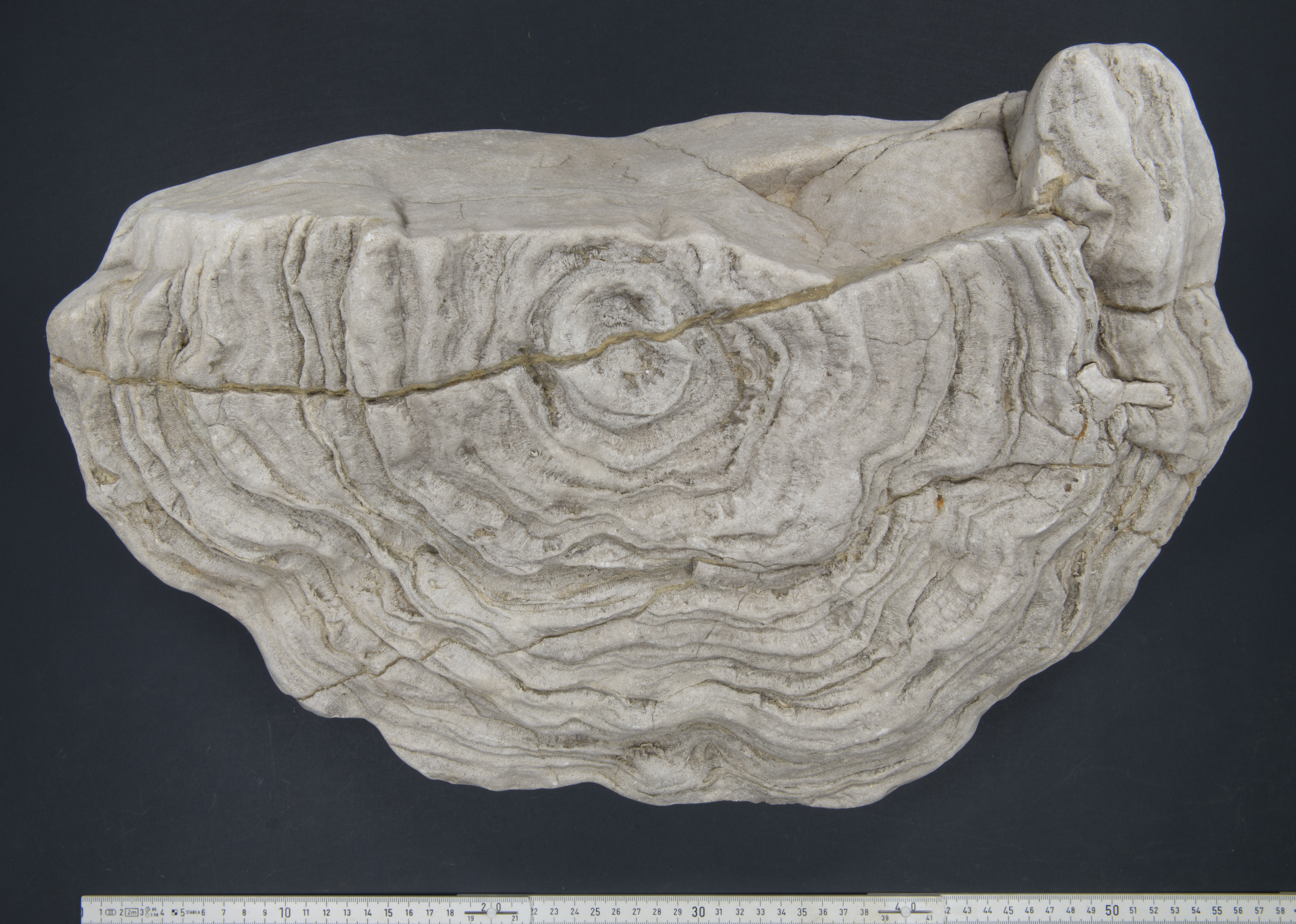 Stromatopore, Gotland, Sweden